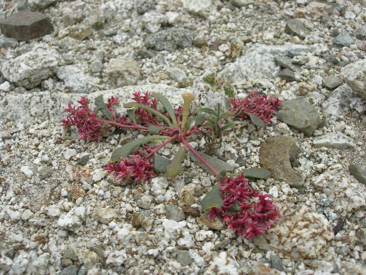 Cistanthe monandra (synonym: Calyptridium monandrum) known by the common name Common Pussypaws. Picture taken at Lytle Creek (California, USA)